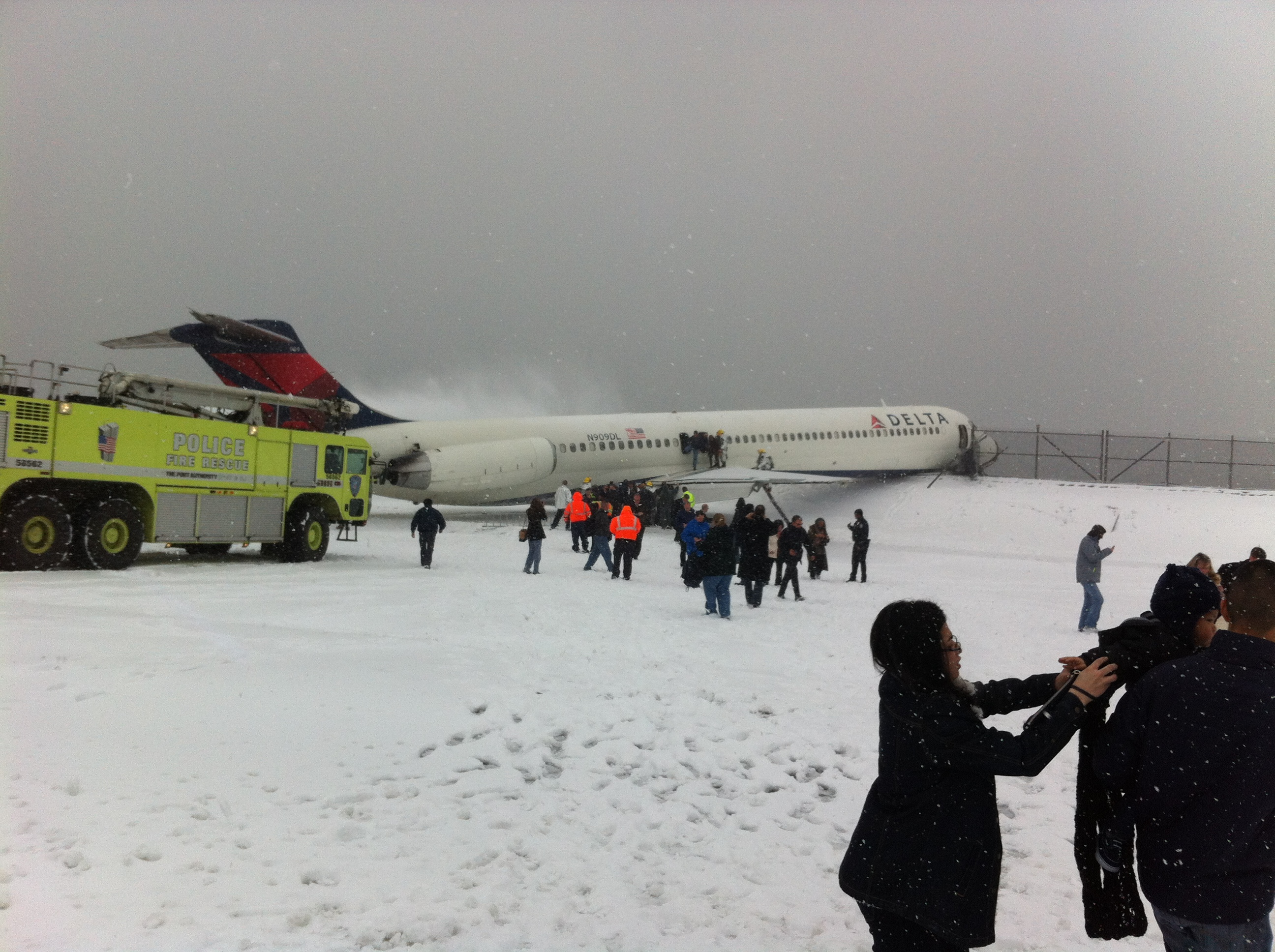 Delta Air Lines flight 1086 from Hartsfield–Jackson Atlanta International Airport to New York LaGuardia Airport. This plane skidded off the runway and stopped after hitting a berm. Passengers evacuated off the wing.